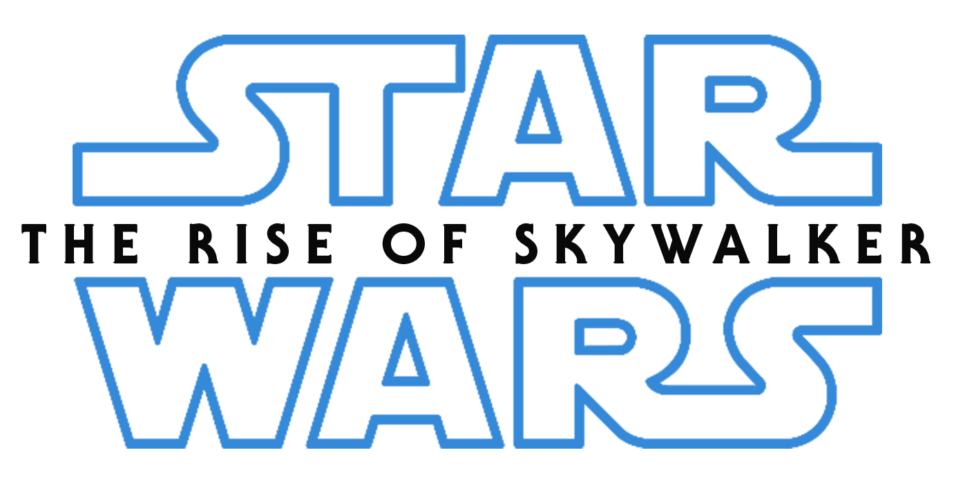 Star Wars: The Rise of Skywalker logo.